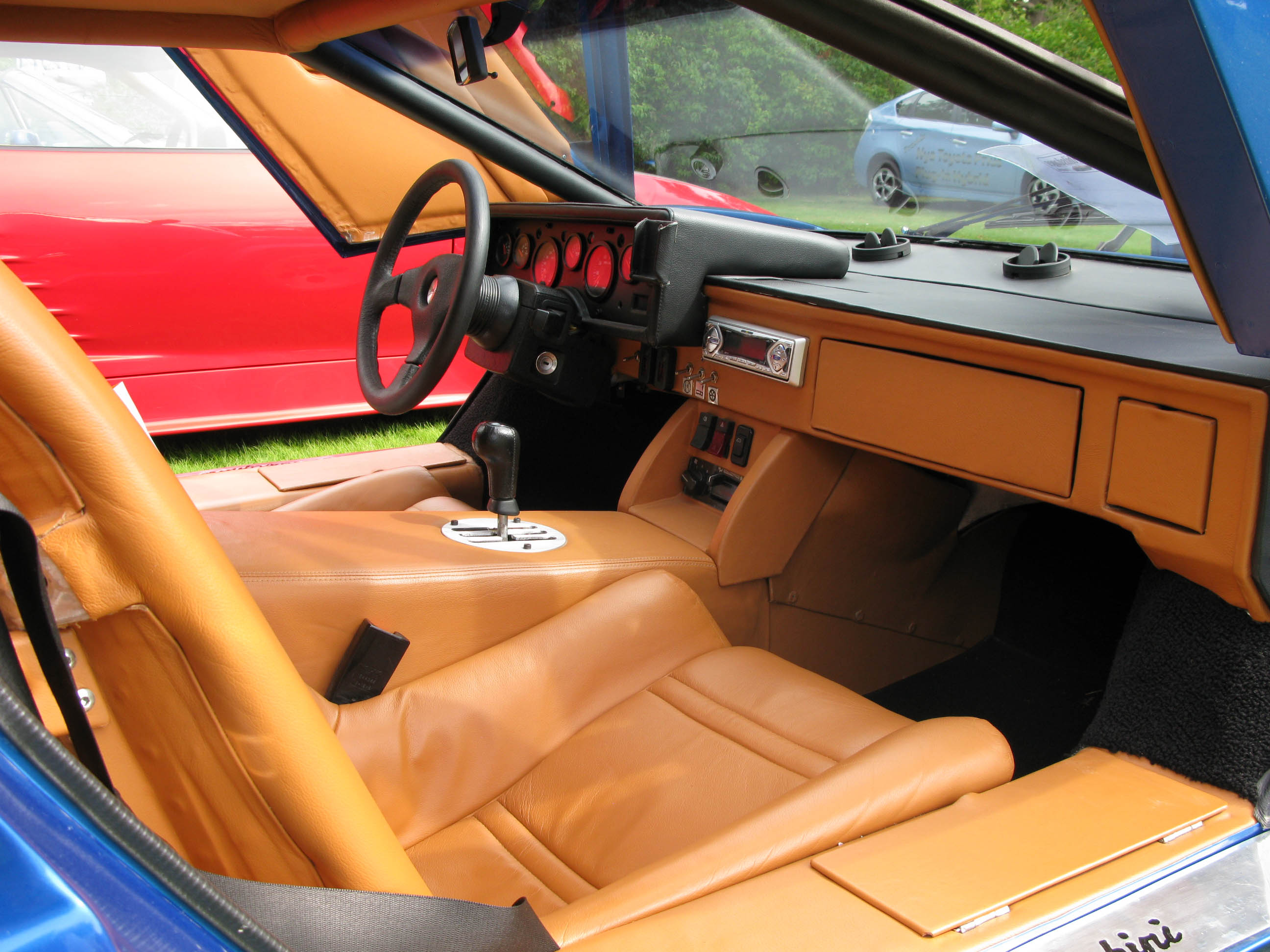 Lamborghini Countach interior. Event: Sportbilsdagen i Västervik 2012.